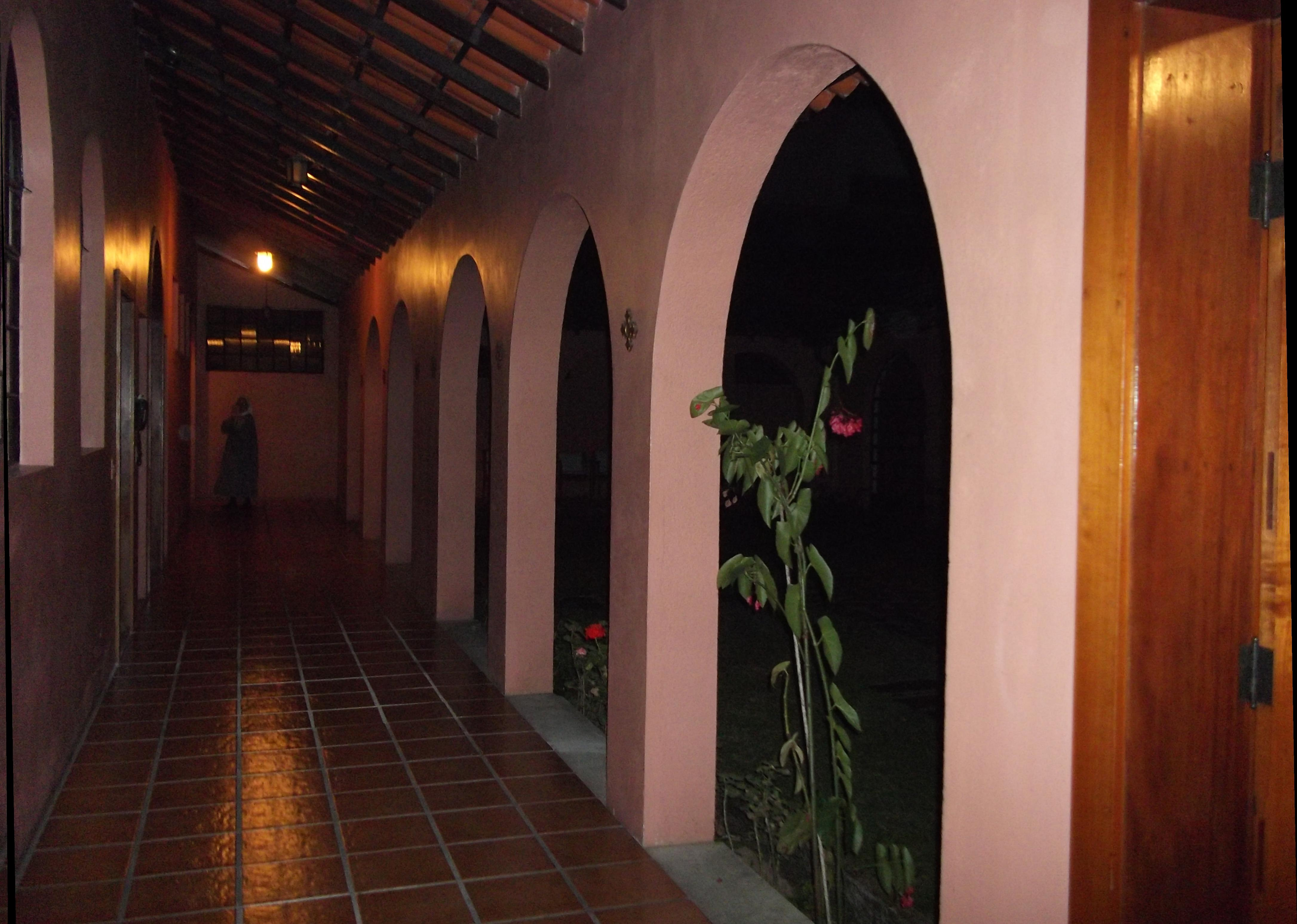 Virgin's Monastery (benedictine nuns), Petrópolis, Rio de Janeiro State, Brazil : Cloister